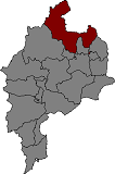 Location of les Valls de Valira in Alt Urgell